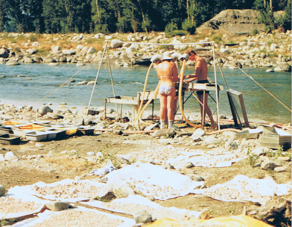 Freudenthal wash-sieving table at work, processing silt and clays samples for the obtaining of small vertebrates fossil remains. Designed and built by the Dutch paleontologist Matthijs (Thijs) Freudenthal. Photo taken in Spain, in a 1986 field work. First samples are drying before processing. On the left, basins to soak the samples for disaggregation. In the center the system of sieves with decreasing light to remove the clays and concentrate the possible remains, with the help of water hoses driven by a motor pump.